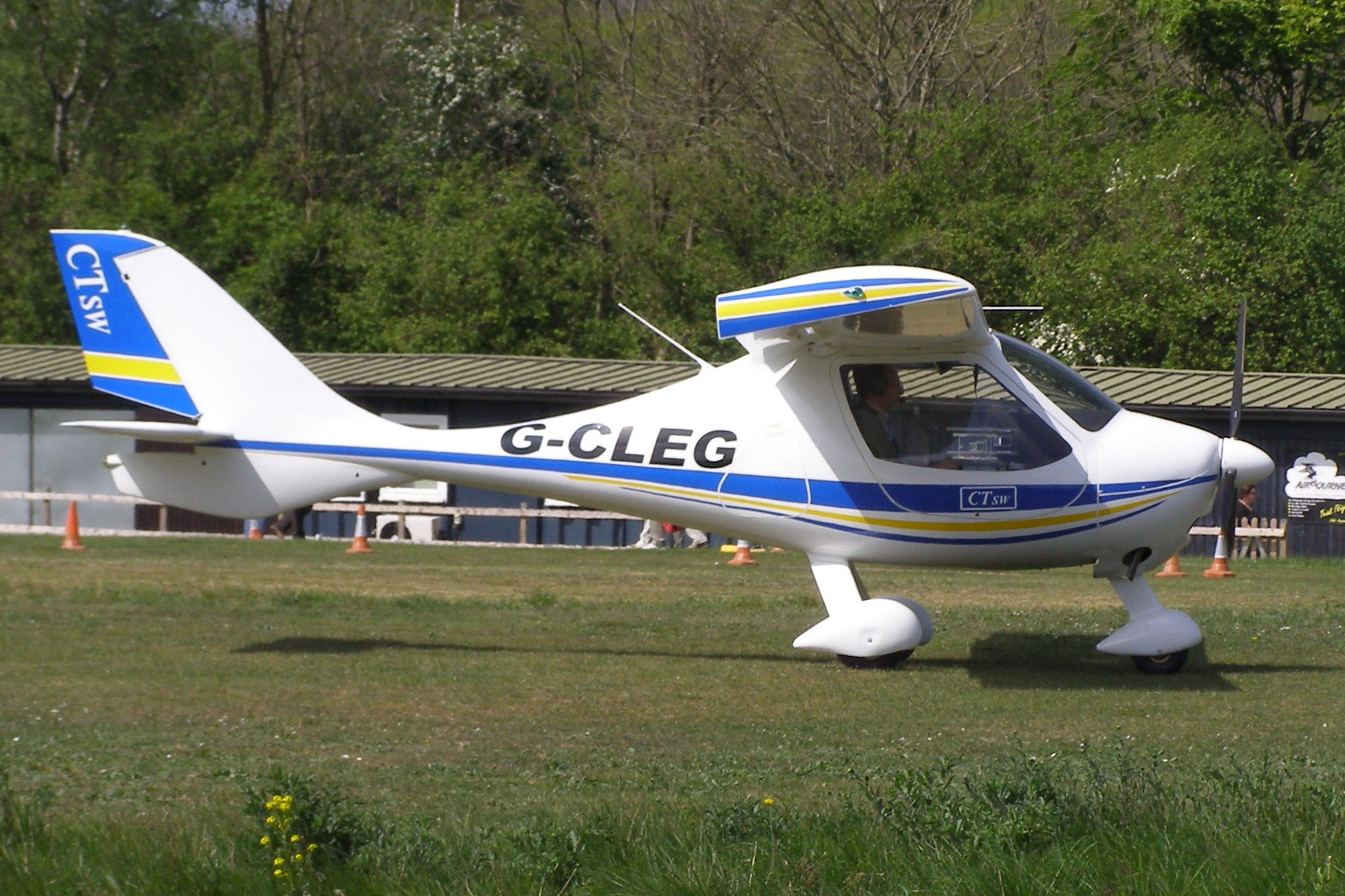 Flight Design CTSW registered G-CLEG at Popham airfield, Hampshire, England